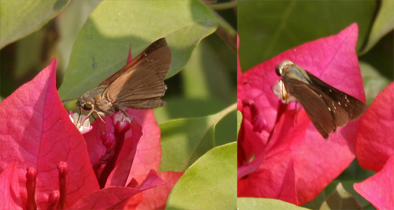 SMALL BRANDED SWIFT Pelopidas mathias in Kolkata, West Bengal, India.